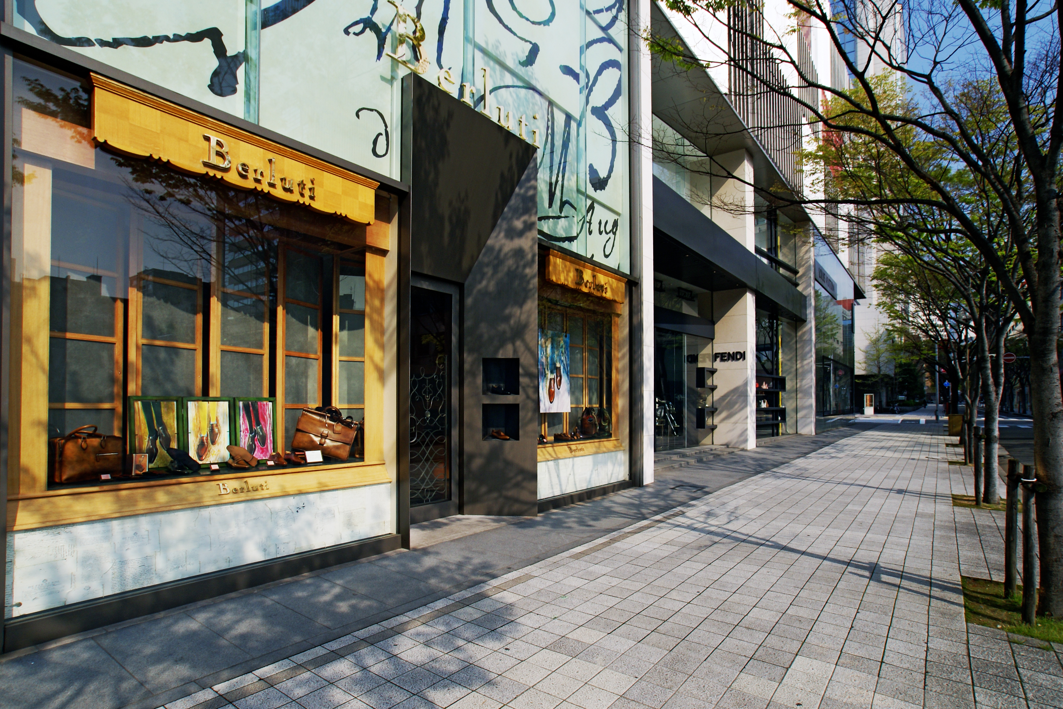 LVMH Building (Berluti, FENDI, Louis Vuitton) in Kyukyoryuchi (Former Foreign Settlement of Kobe), Kobe, Hyogo prefecture, Japan